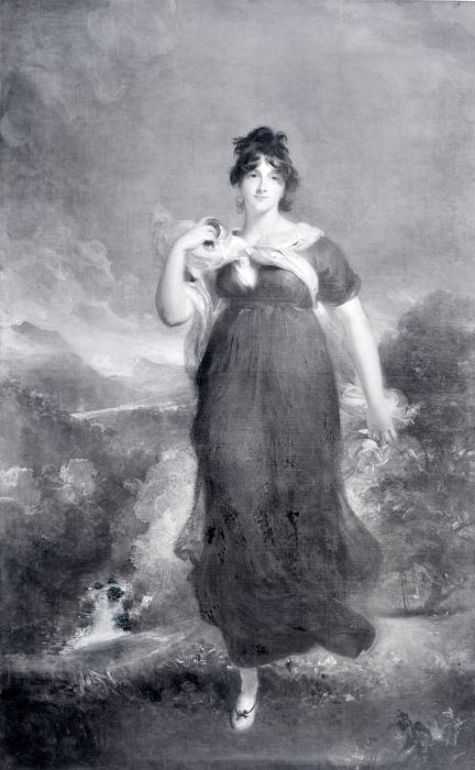 Elizabeth Conyngham, née Denison (1769-1861) was the wife of the 1st Marquess Conyngham. At the time this portrait was painted, she was Countess Conyngham. She was the last mistress of George IV. The pose is derived from the Diane Chasseresse, of which Lawrence owned a cast.